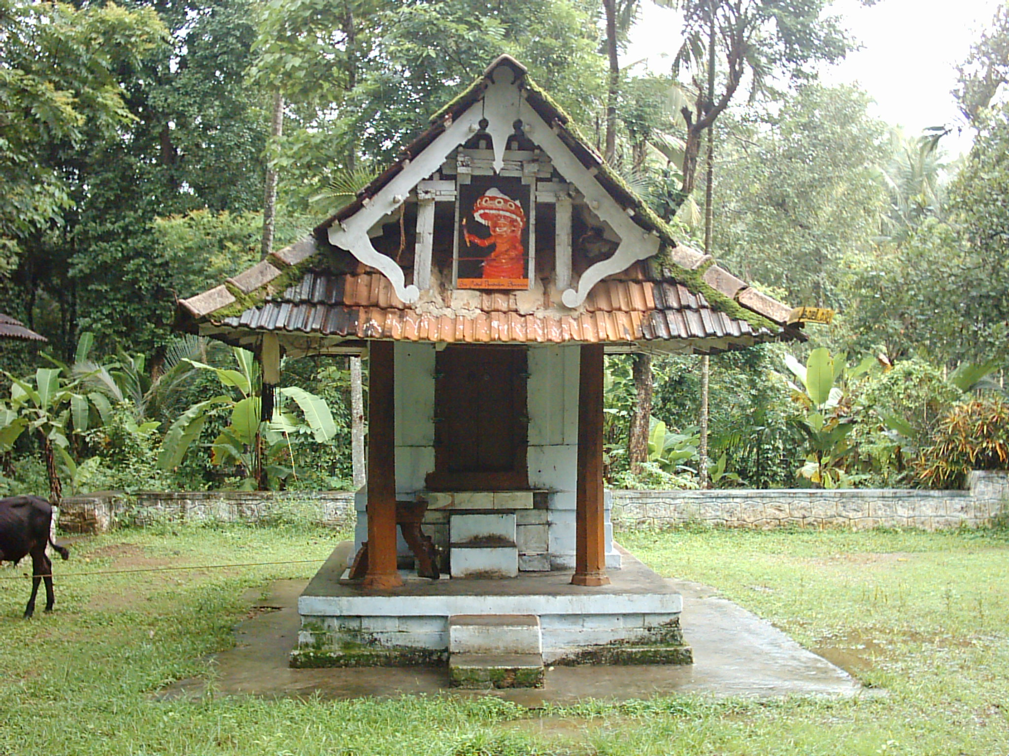 Sree Padiyil Vayanatu Kulavan Temple, Pariyaram. Managed by Velengotunjalil family members. Author Praneeth TP